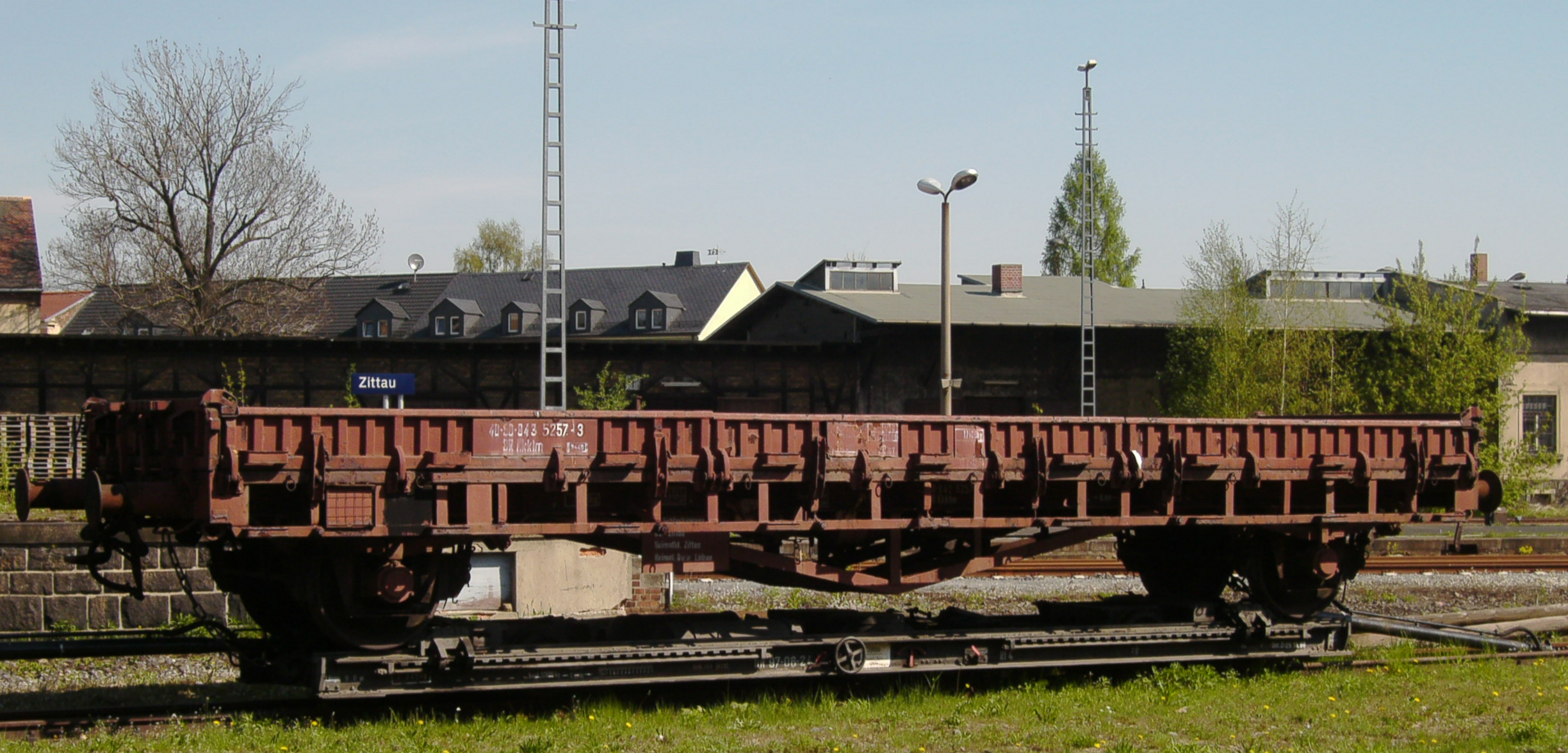 German goods wagon (stake wagon), Rms Stuttgart, built from 1938, after removal of stakes and waybill basket, finally being used as a slag wagon, taken on a Roll wagon at Zittau station